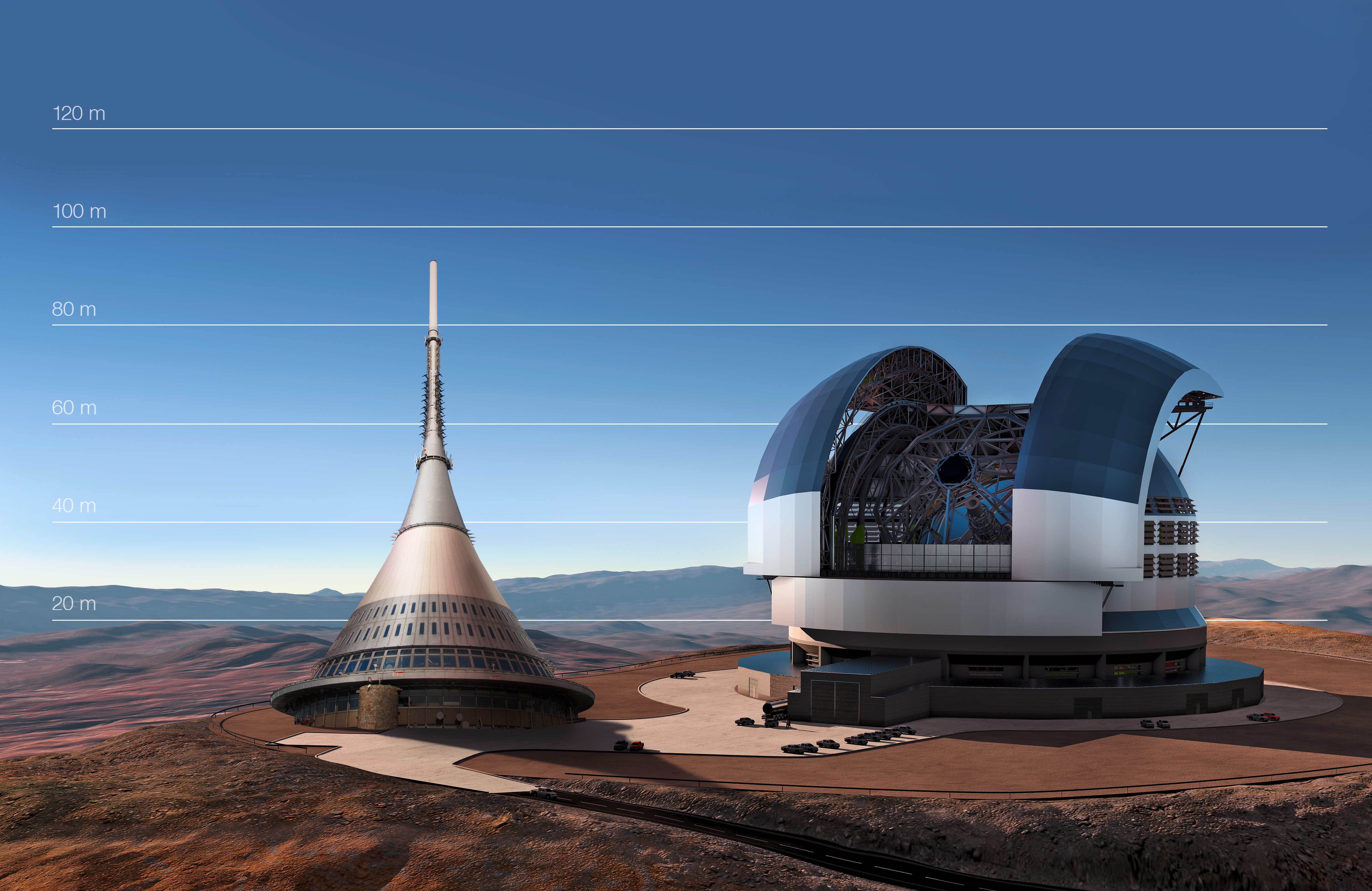 The ELT compared to the Ještěd Tower in the Czech Republic